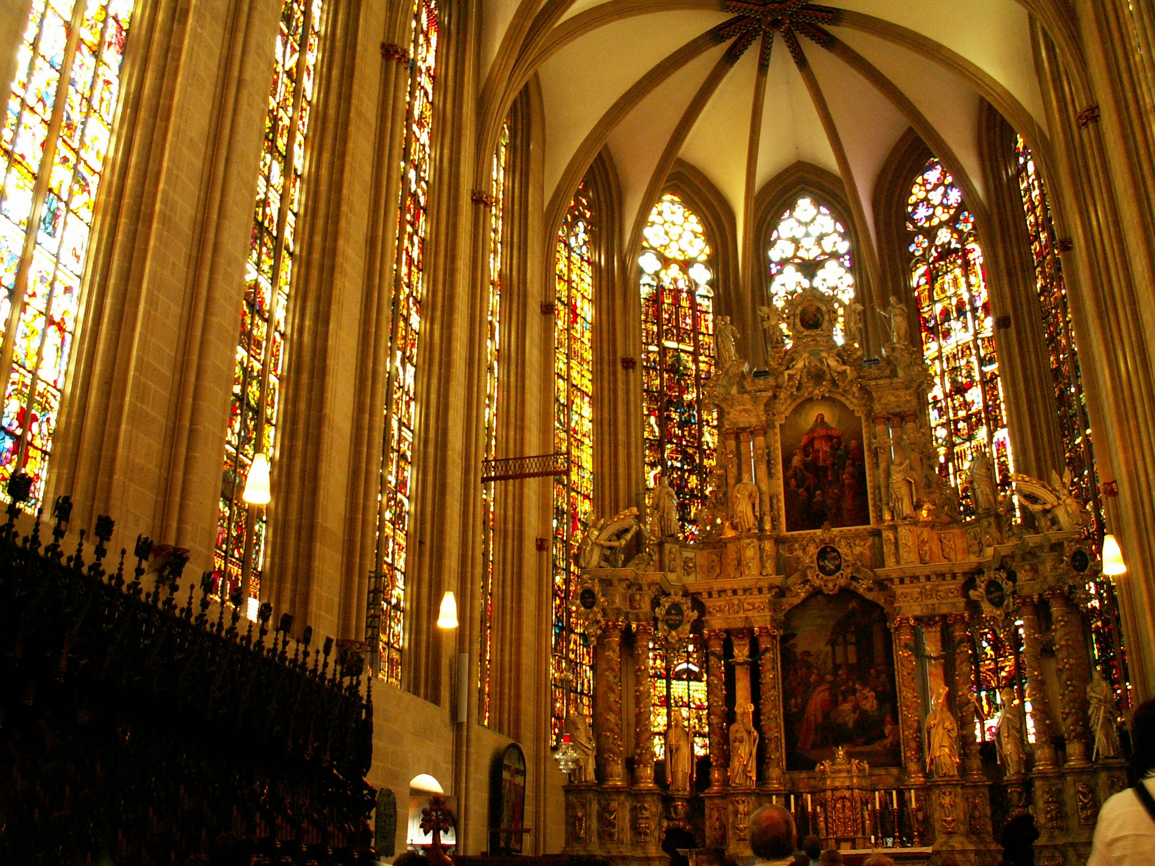 Cathedral